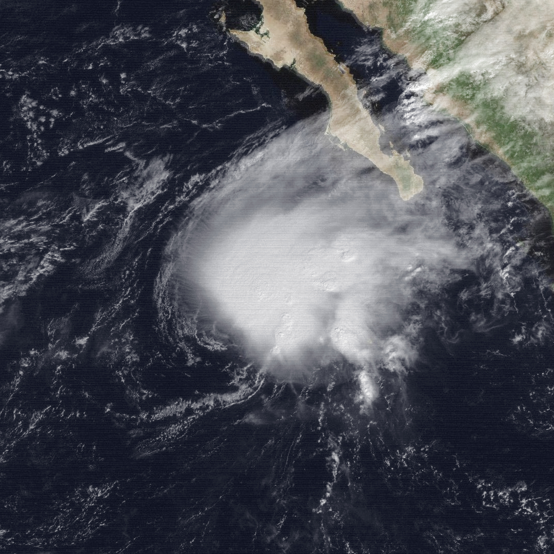 Tropical Storm Zeke near peak intensity off the Baja California Peninsula on October 29, 1992